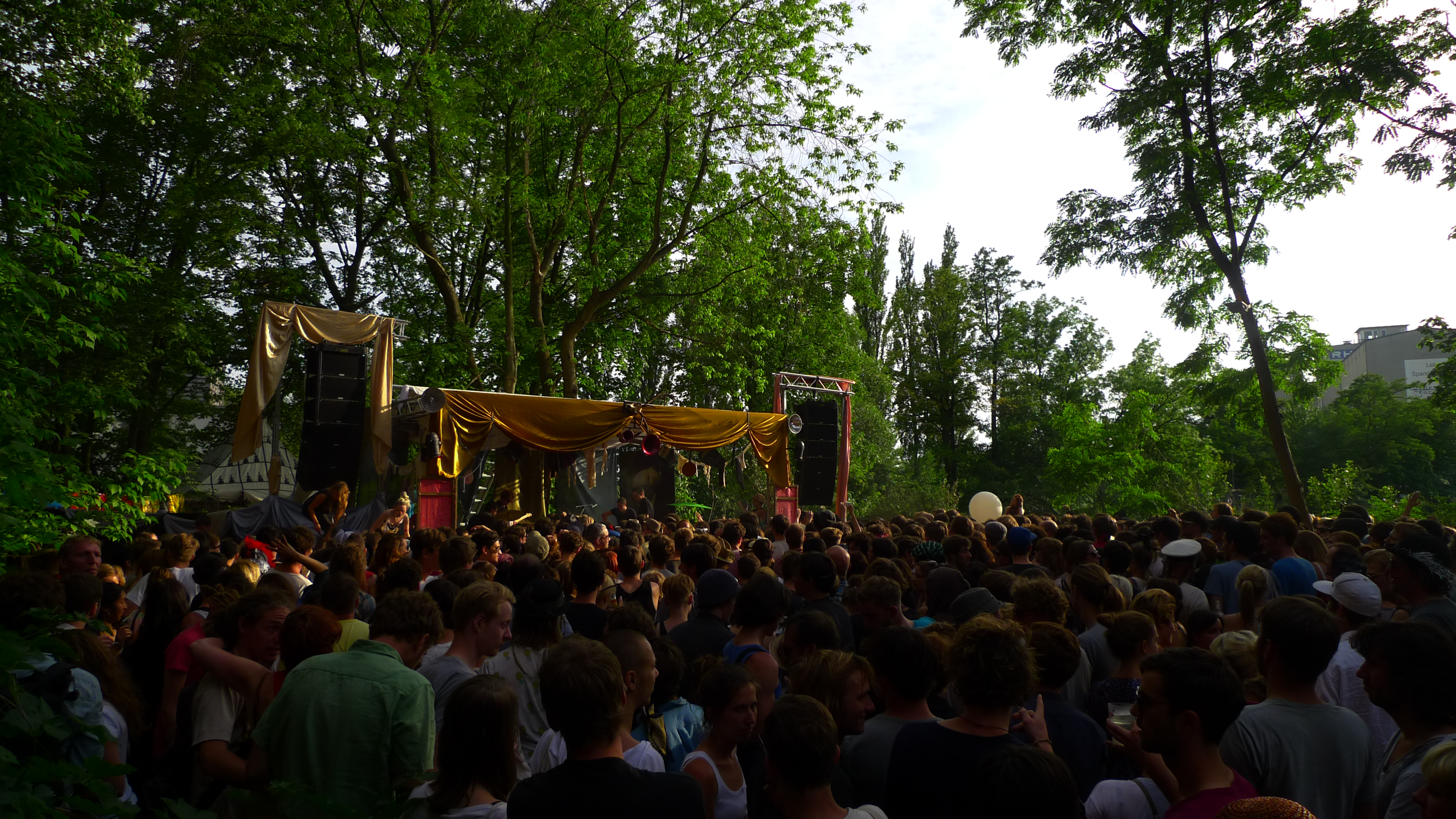 Nicolas Jaar and his band at the event "Renate Oben Ohne At Secret Location" at the CCC-Film compound in Berlin-Spandau on 13 June 2011.